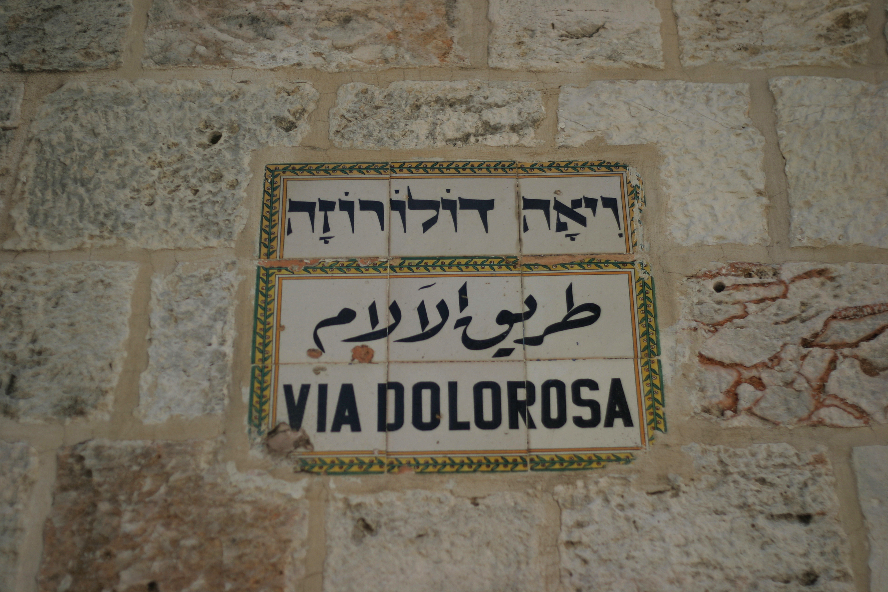 Jerusalem in the 1st century CE - Old Jerusalem - "VIA DOLOROSA" street sign opposite to Austrian Hospice.